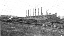 The Knoxville Iron Company plant in Knoxville, Tennessee, USA, photographed circa 1919.